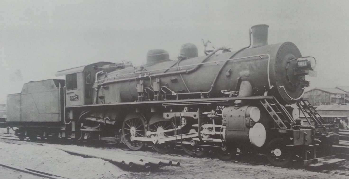 Builder's photo of Manchukuo National Railway locomotive Pashiku 5987.